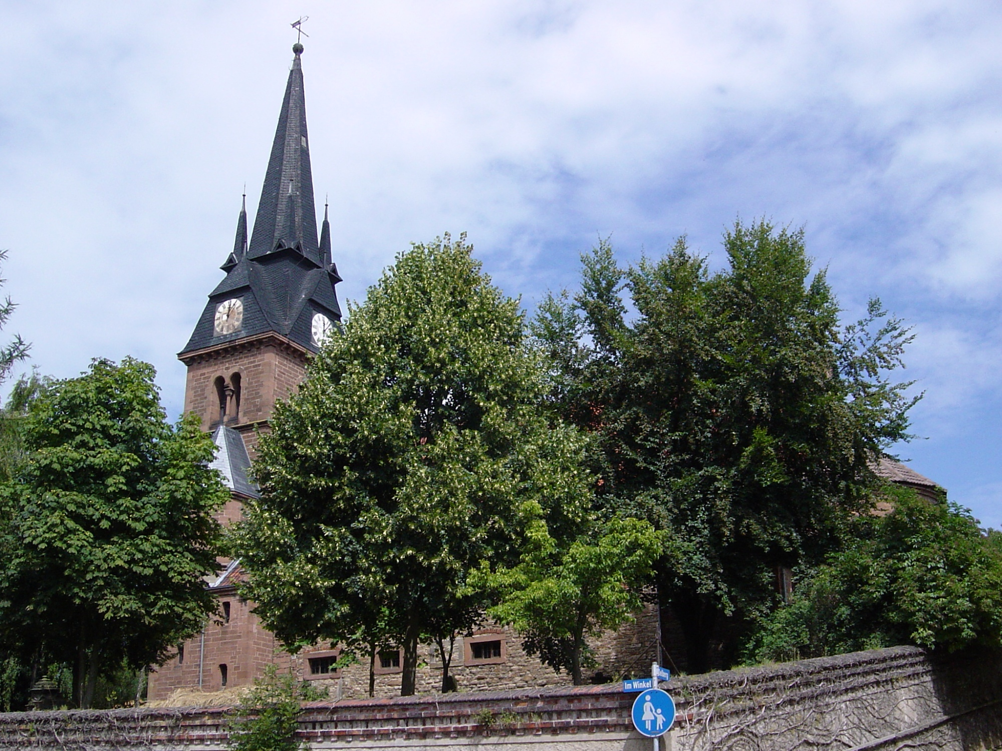 Protestant church in Bregenstedt, Germany